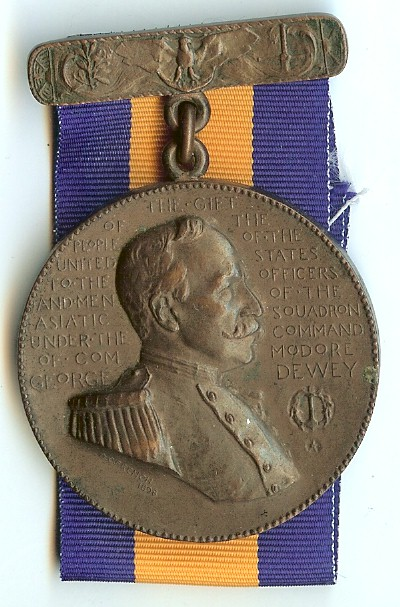 This is the obverse of a "Dewey" Medal